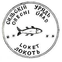 Municipal seal of Loket Village